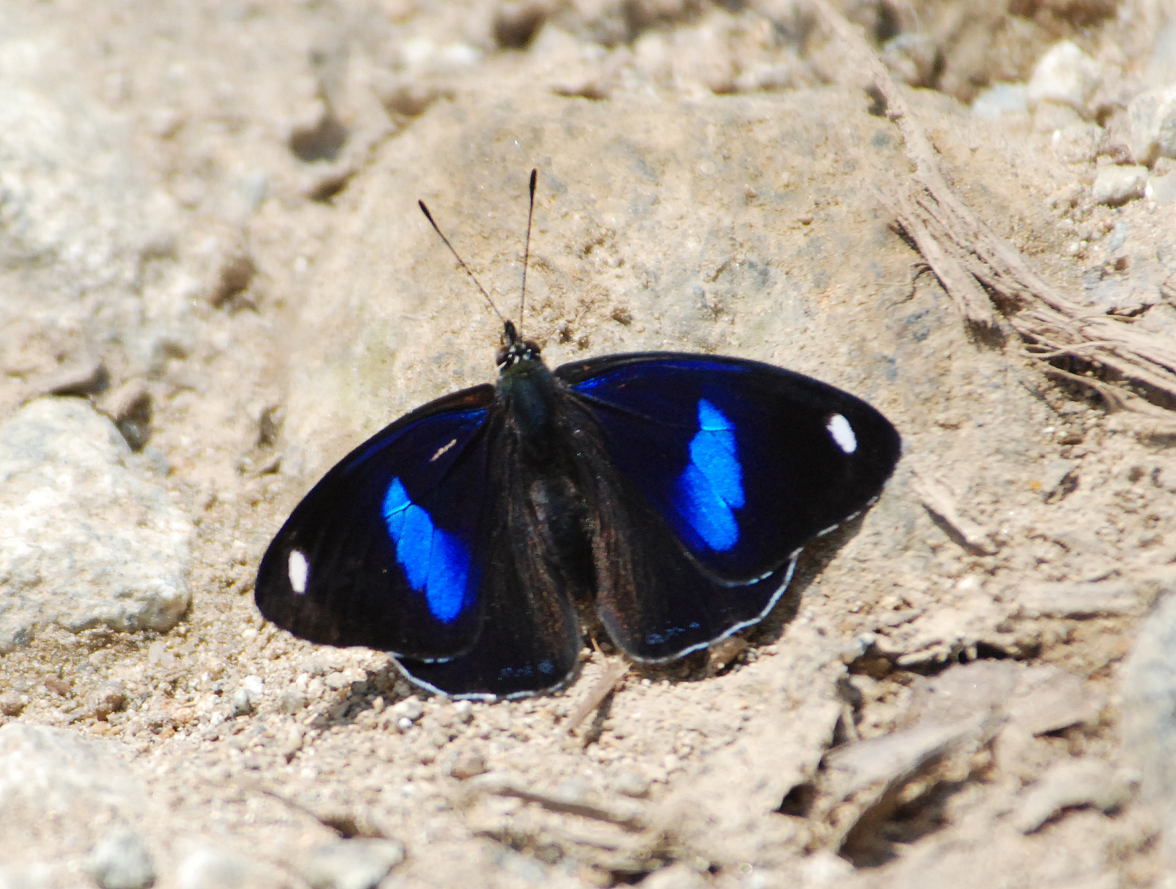 Faded Eighty-eight/Navy Eighty-eight at La Soledad, San Pedro el Alto, Oaxaca, Mexico, 080328. Diaethria astala.